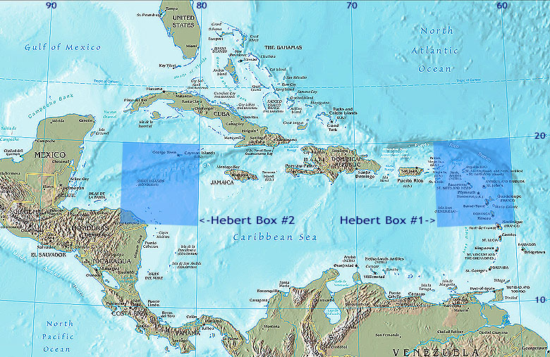 Hebert Boxes are named for former National Weather Service and National Hurricane Center forecaster Paul Hebert, who observed in the late 1970's that most strong hurricanes (characterized as those with winds exceeding 110 miles per hour (177 km/h)) which had struck South Florida since 1900 had also passed through one of these two small 335-mile-by-335-mile (517-km-by-517-km) square geographic regions.